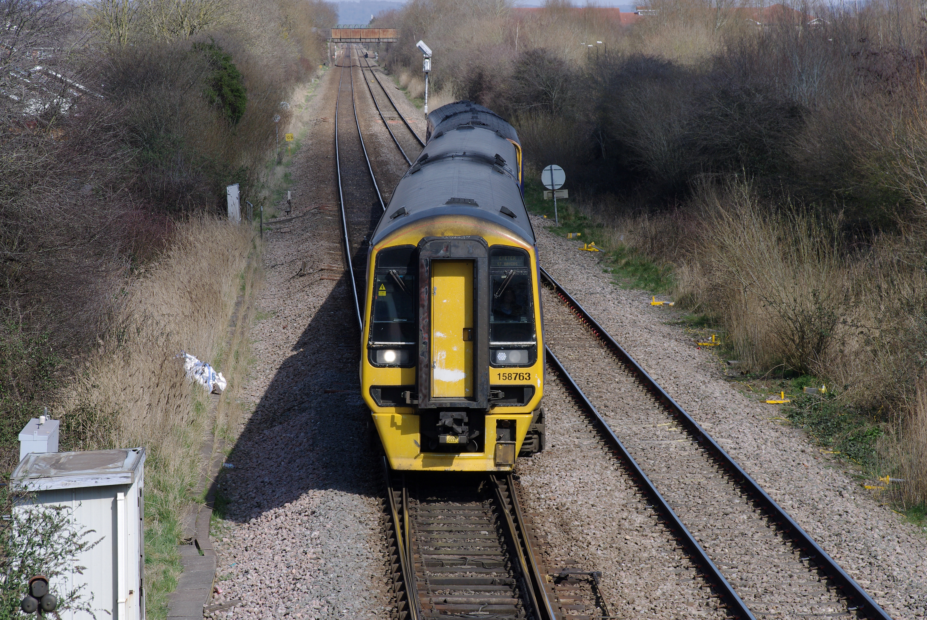 First Great Western class 158 "Express Sprinter" DMU 158763 leads class 150 "Sprinter" DMU 150248 at Worle Junction in Weston-super-Mare. Here they transition on to the Up line in order to reach the Loop.